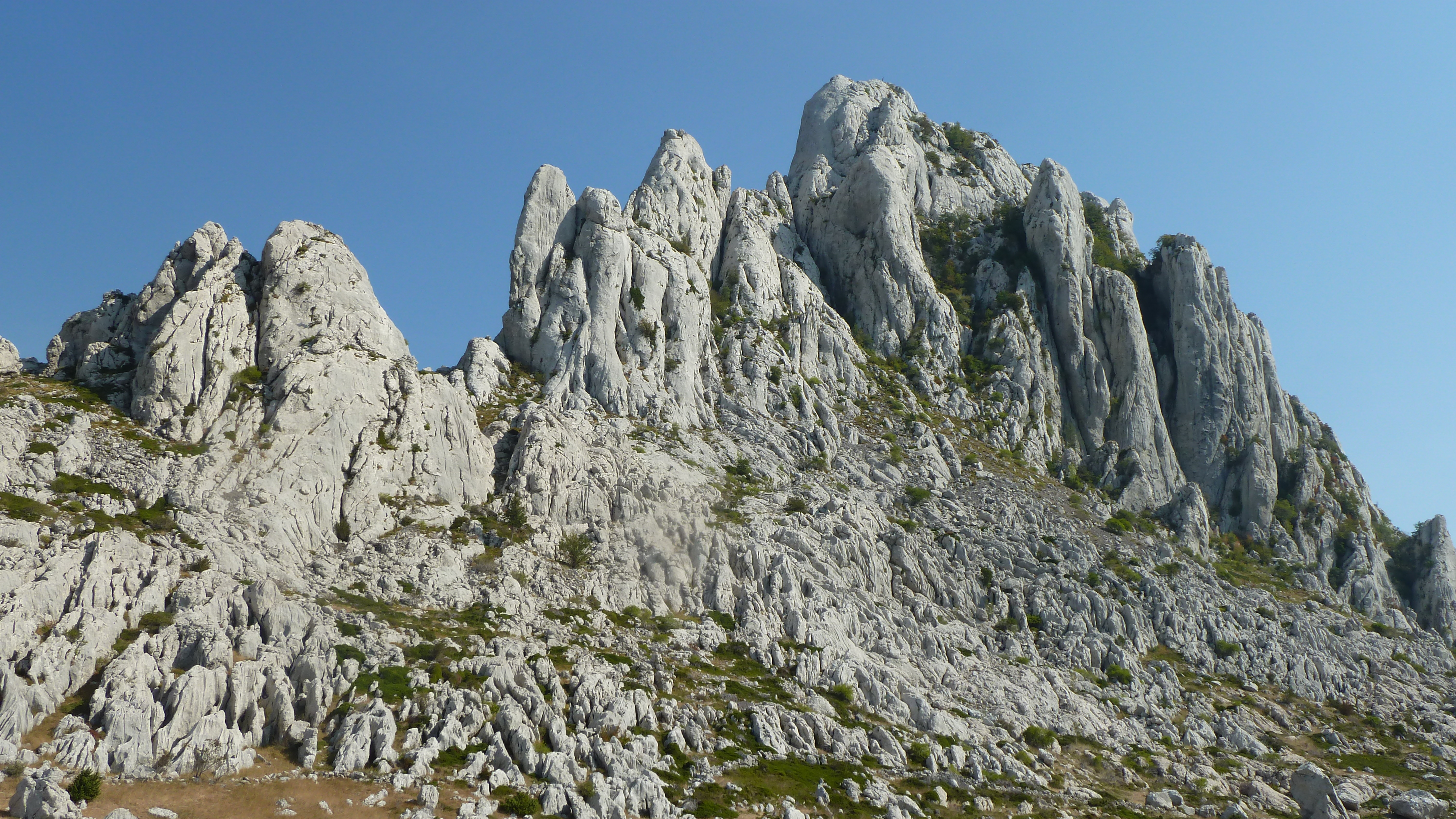 Tulove grede in Velebit Nature Park.